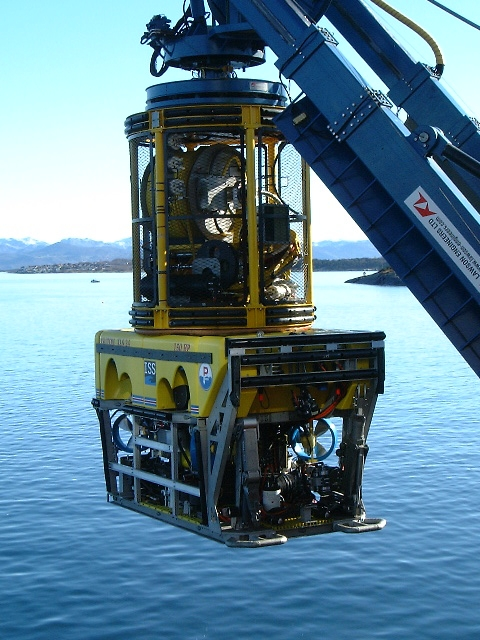 Tritin XLS24 in Stavanger